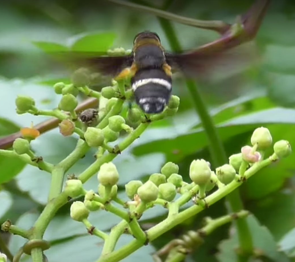 Rear view of Ligyra bee fly (Ligyra tantalus) on bushkiller (Cayratia japonica) (also known as yabu garashi or Japanese cayratia herb). Filmed in Kitanomaru Park, Chiyoda-ku, Tokyo, Japan on 4 September 2016.